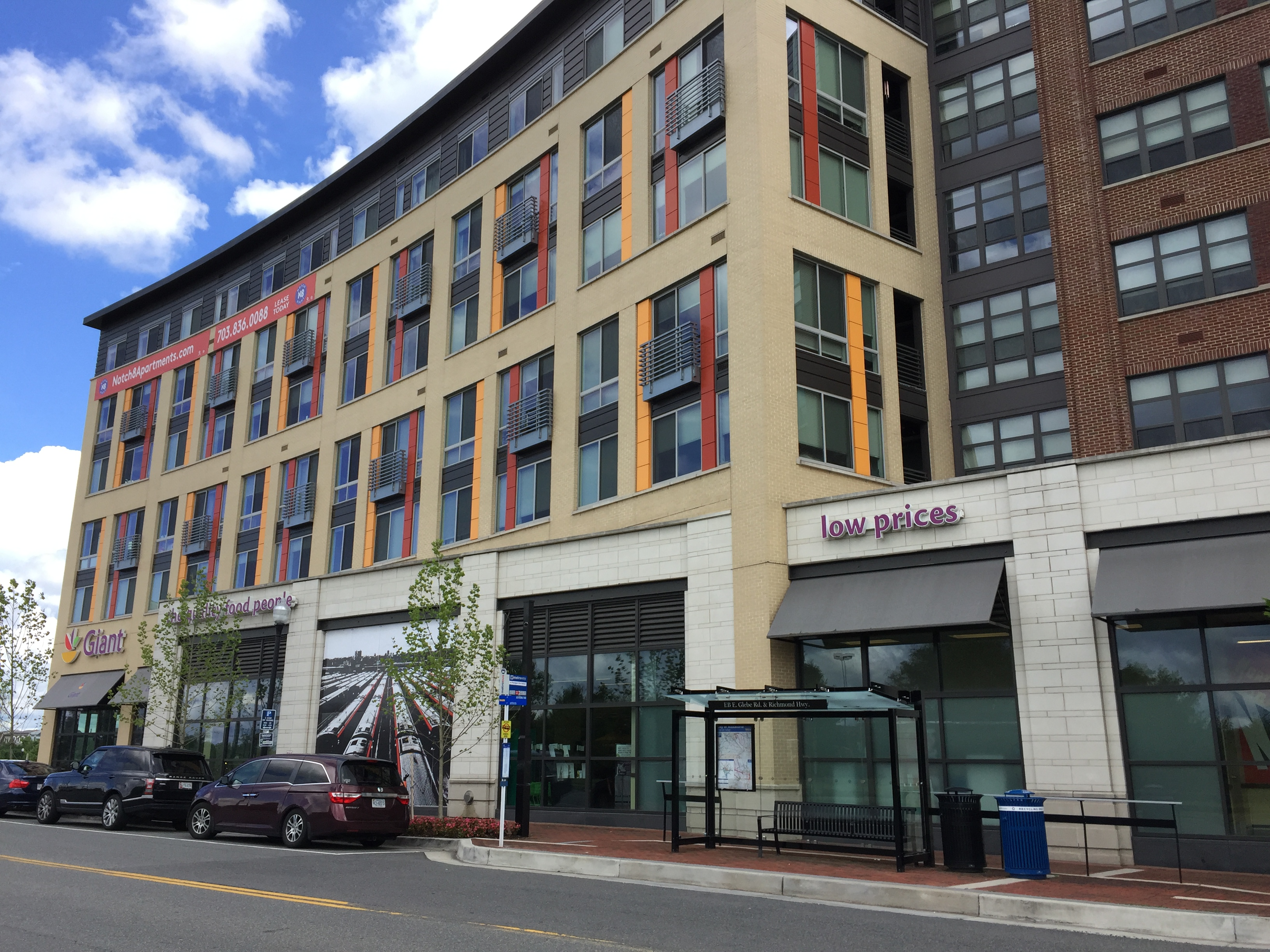 Northbound platform of East Glebe Metroway station in 2019